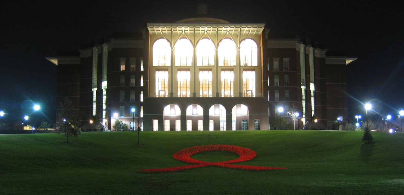 This is a photo of the William T. Young Library at the University of Kentucky in November 2007. The red ribbon was displayed in recognition of AIDS Awareness Month (December). I am hereby releasing this photo to the public domain.